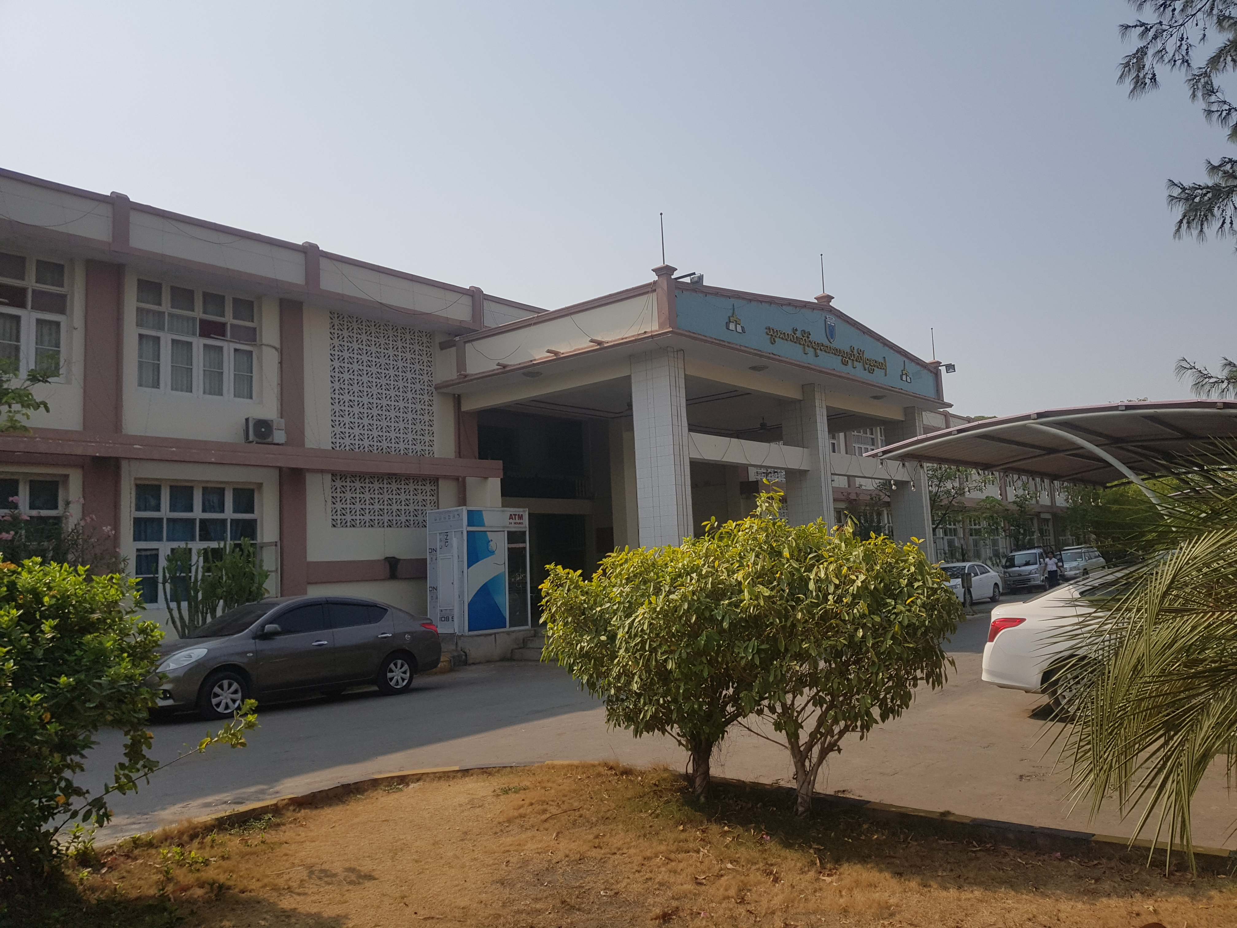 The Main Building of University of Dental Medicine Mandala မြန်မာဘာသာ: သွားဘက်ဆိုင်ရာ​ဆေးတက္ကသိုလ် (မန္တ​လေး)၏ ပင်မ​ဆောင်